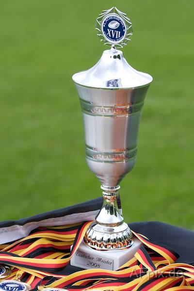 Ladiesbowl trophy